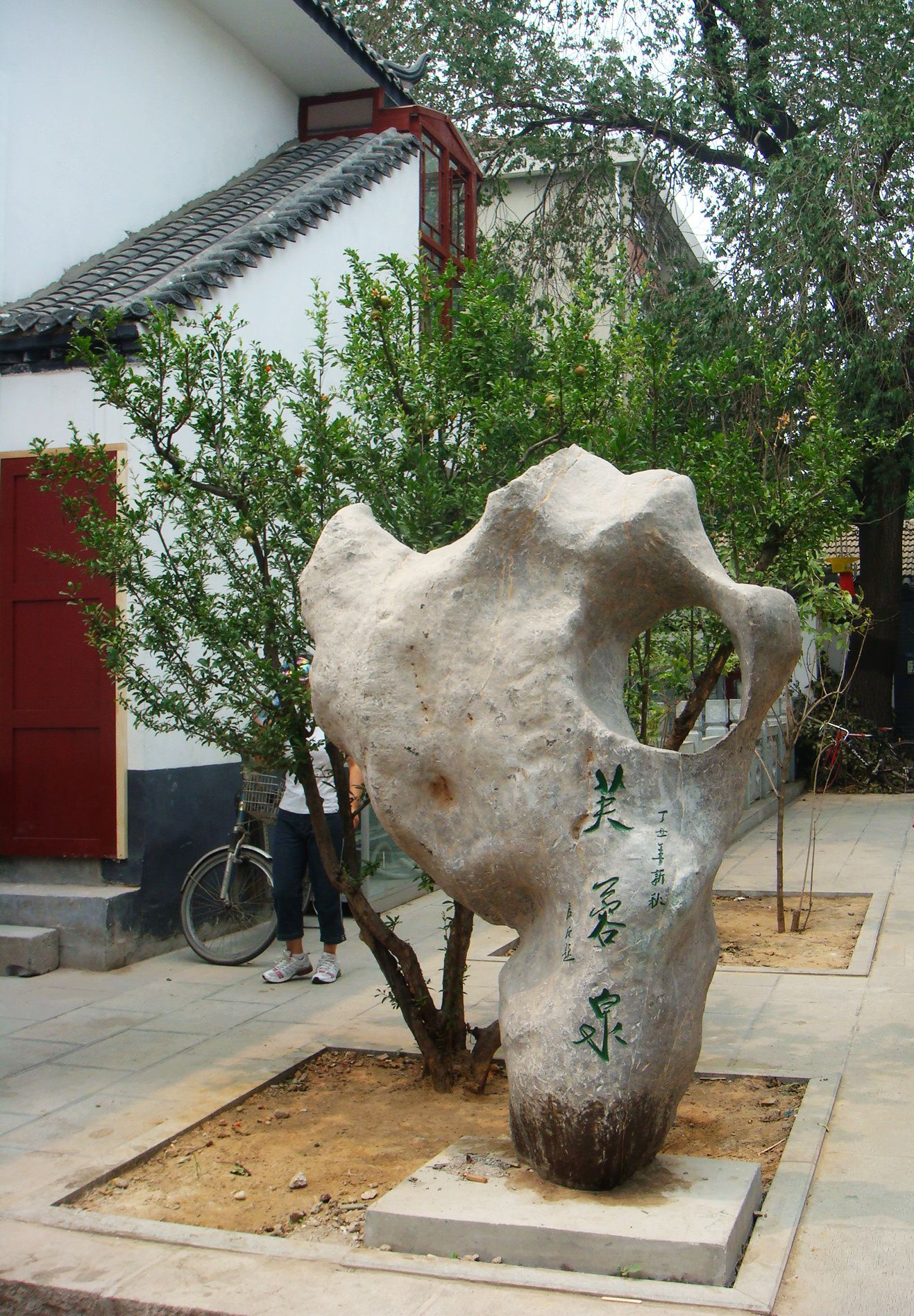 Furong Spring,located at No.69,Furong Road and was regarded as one of the 72 famous springs in the Jin,Ming and Qing Dynasties.